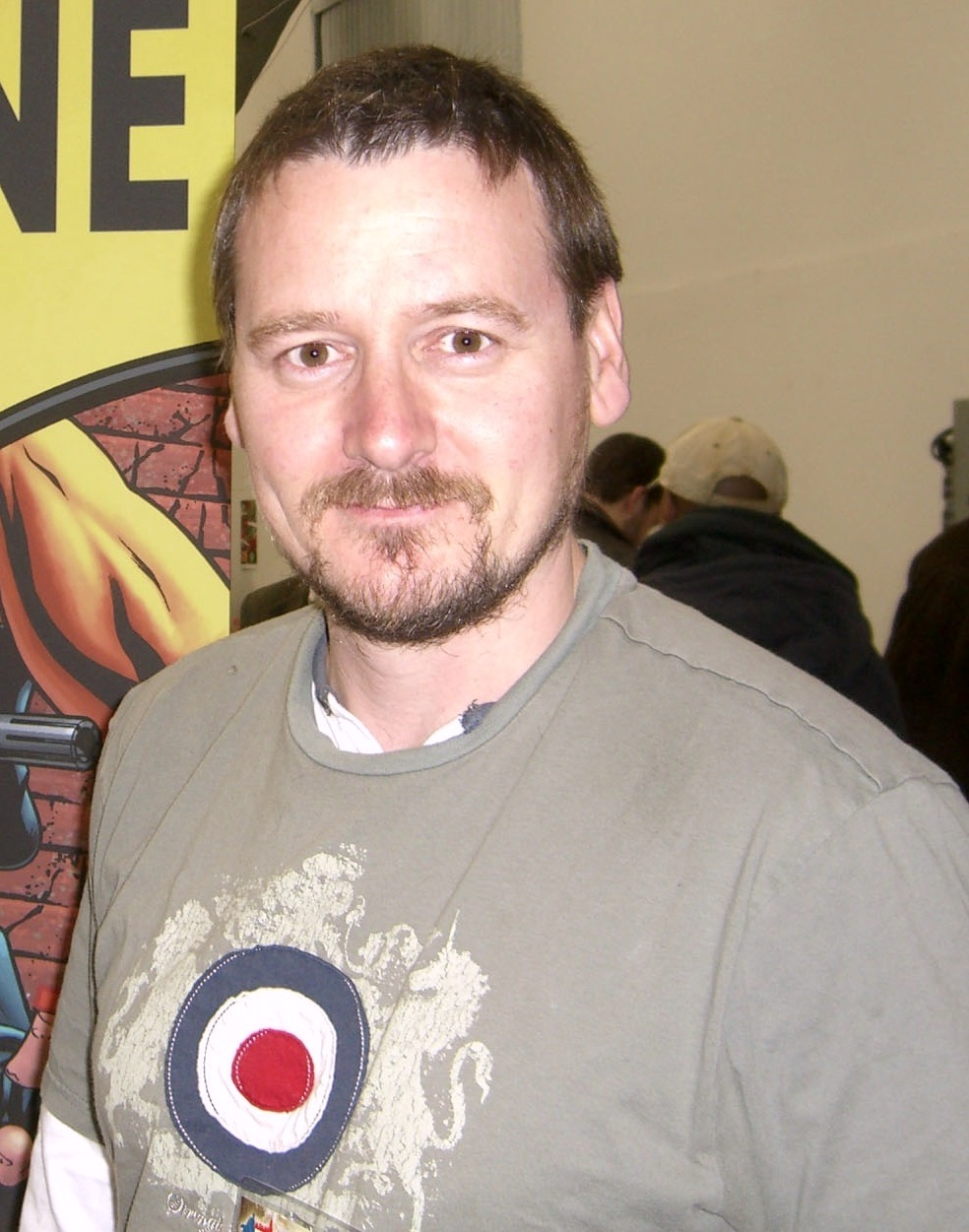 Comic book creator Mike McKone at the Big Apple Convention in Manhattan. Photographed by Luigi Novi. This photo may only be used if the photographer is properly credited. (See Licensing information below.)